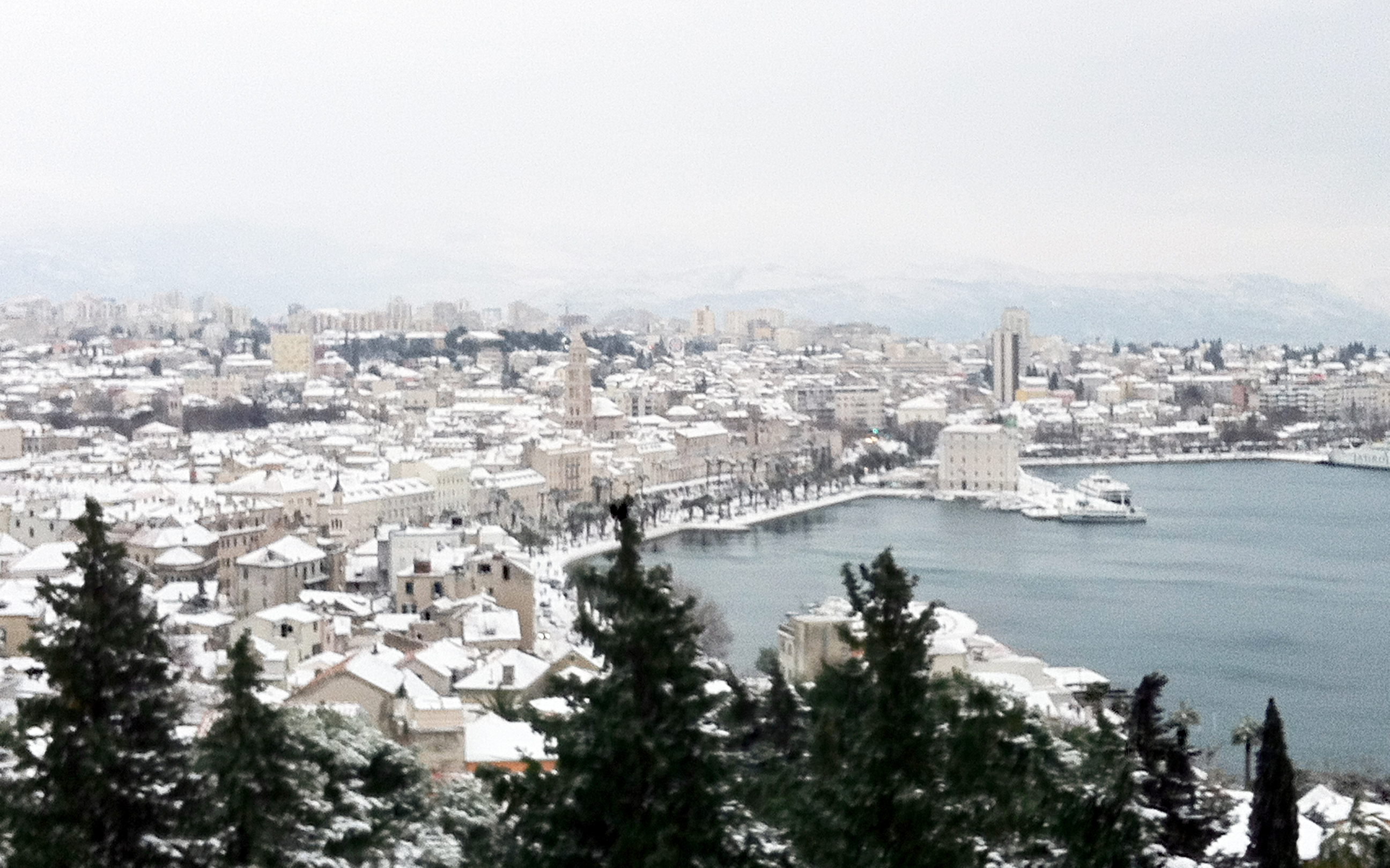 Panoramic view of the City of Split, Croatia from Marjan Hill, as seen in cloudy weather following heavy snowfall.